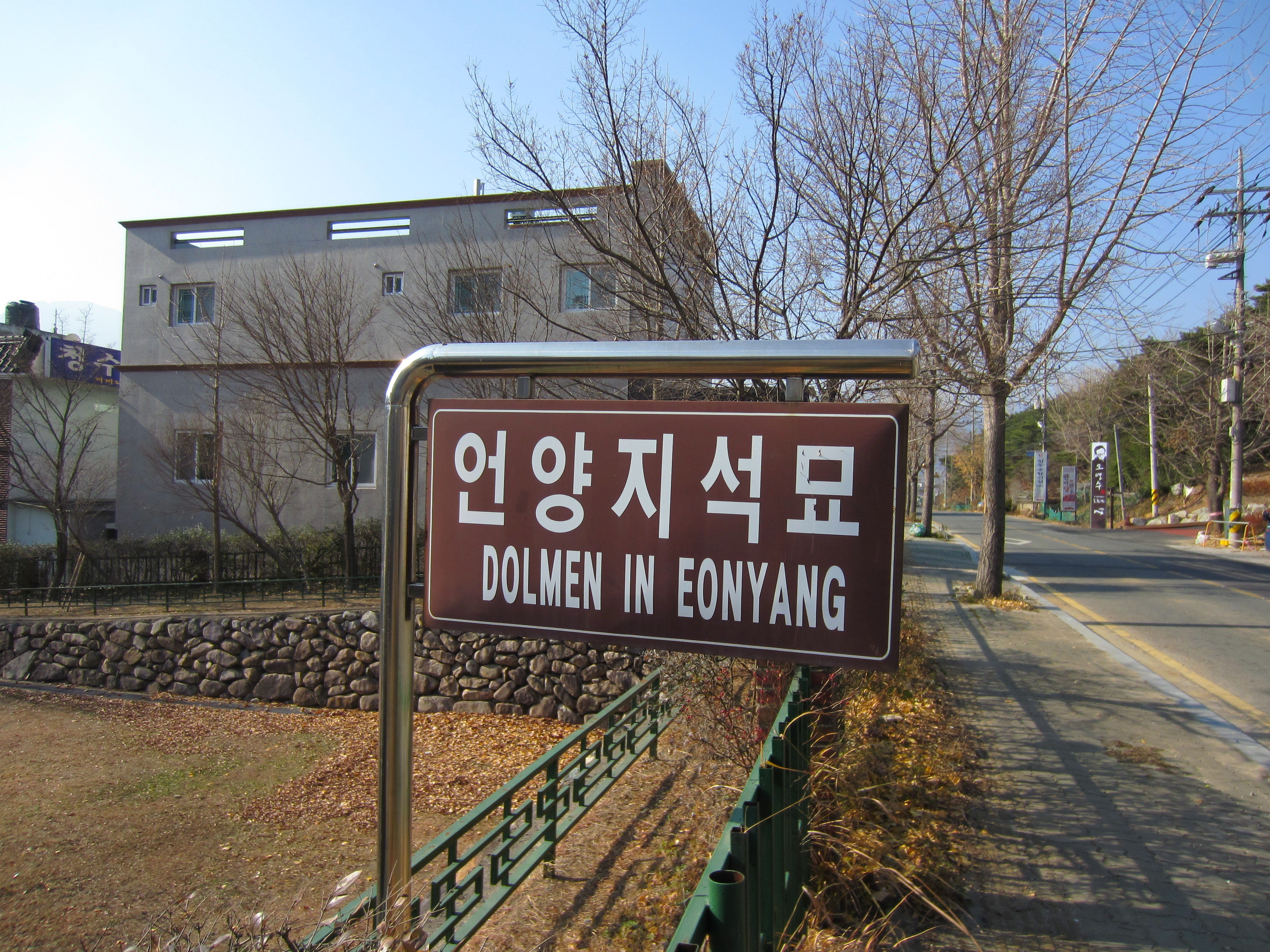 Photograph of a sign designating an Eonyang dolmen